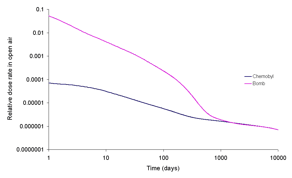 See the graphs on the trinity glass in J. Environmental Radioactivity